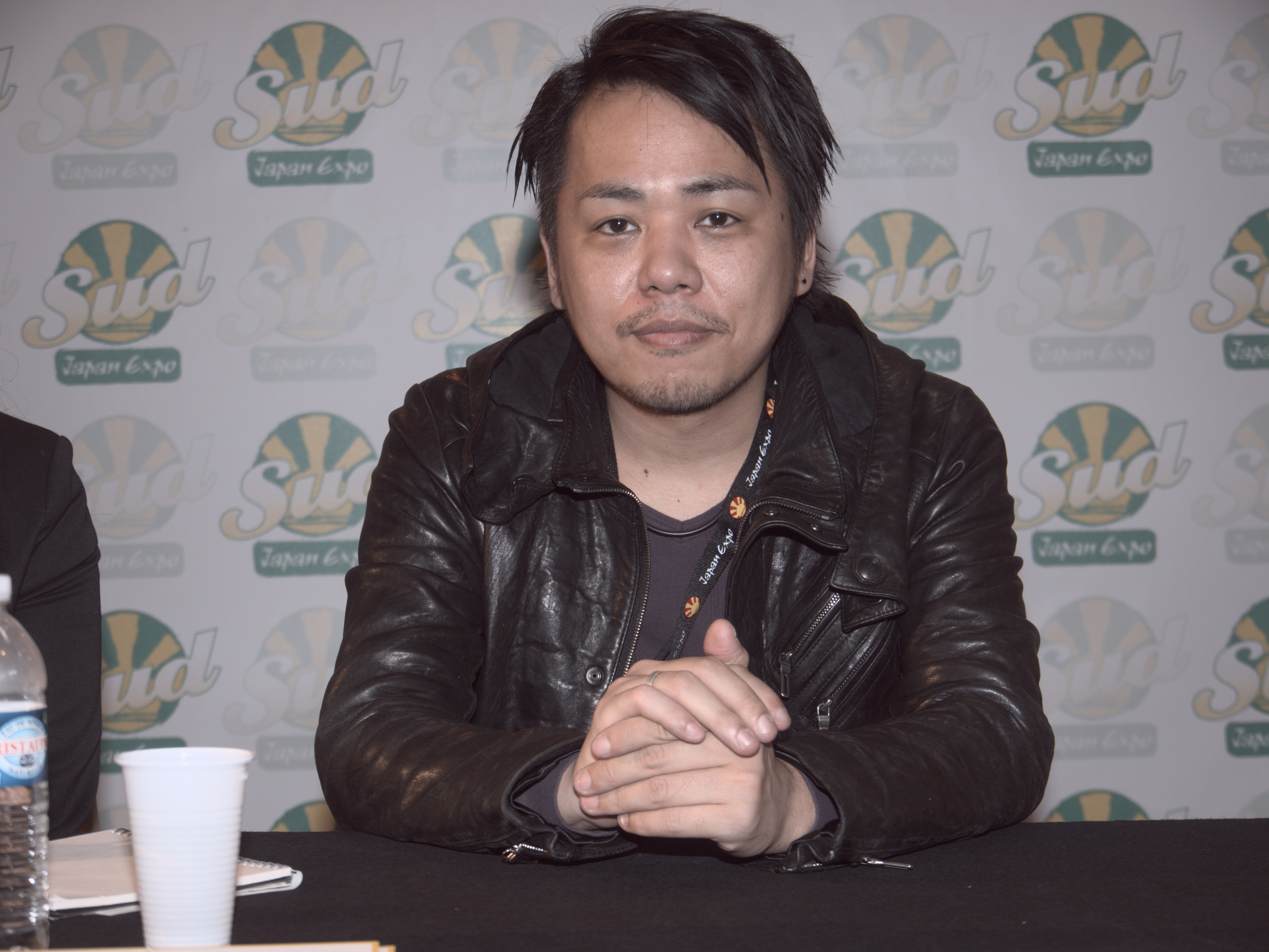 Japan Expo Festival, 3rd edition, 2011